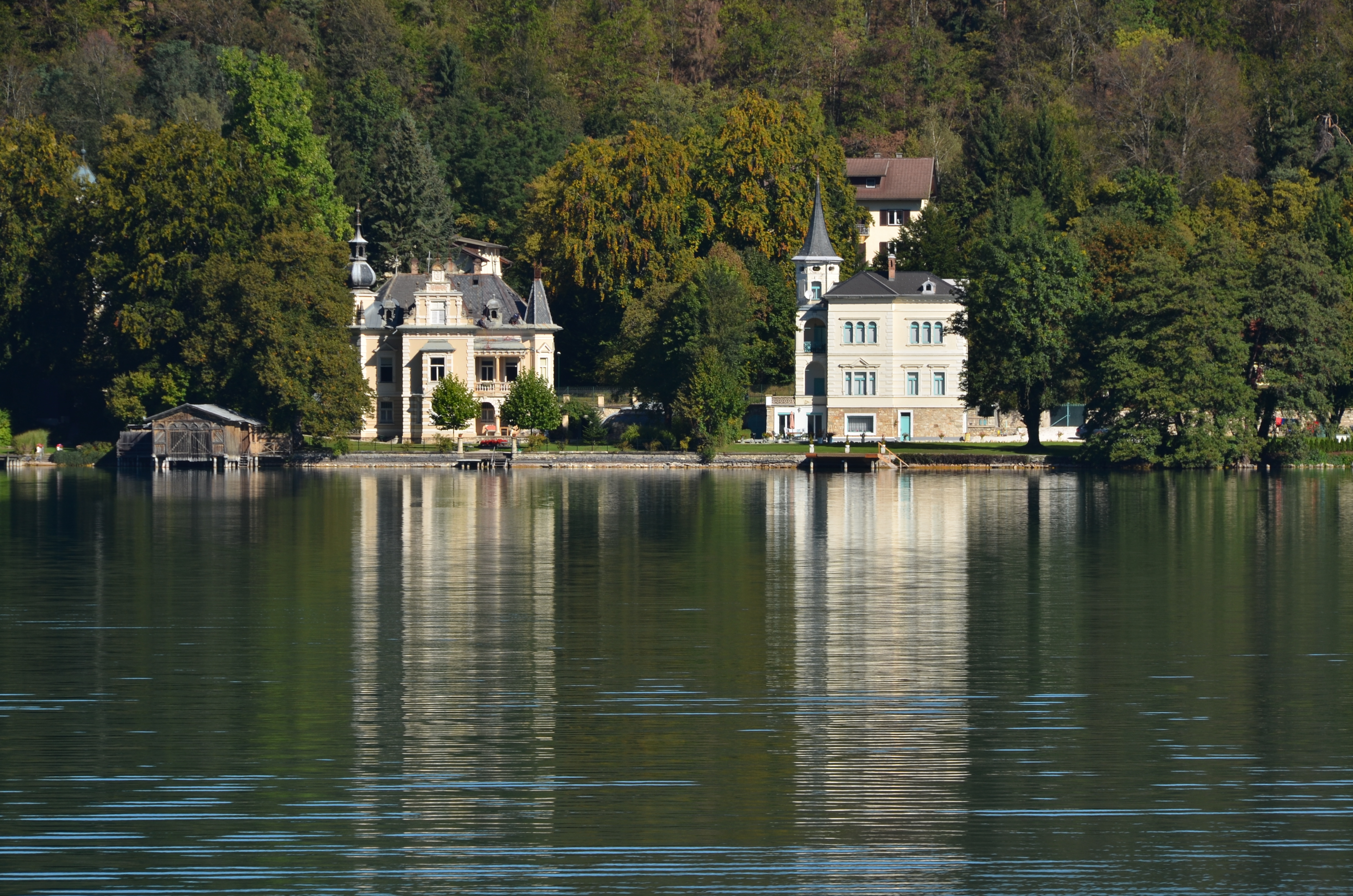 Villa Seewarte (1888) and Villa Seeblick (1888) in late Wilhelminian style, both designed by architect Josef Victor Fuchs, municipality Poertschach on the Lake Woerth, district Klagenfurt Land, Carinthia / Austria / EU